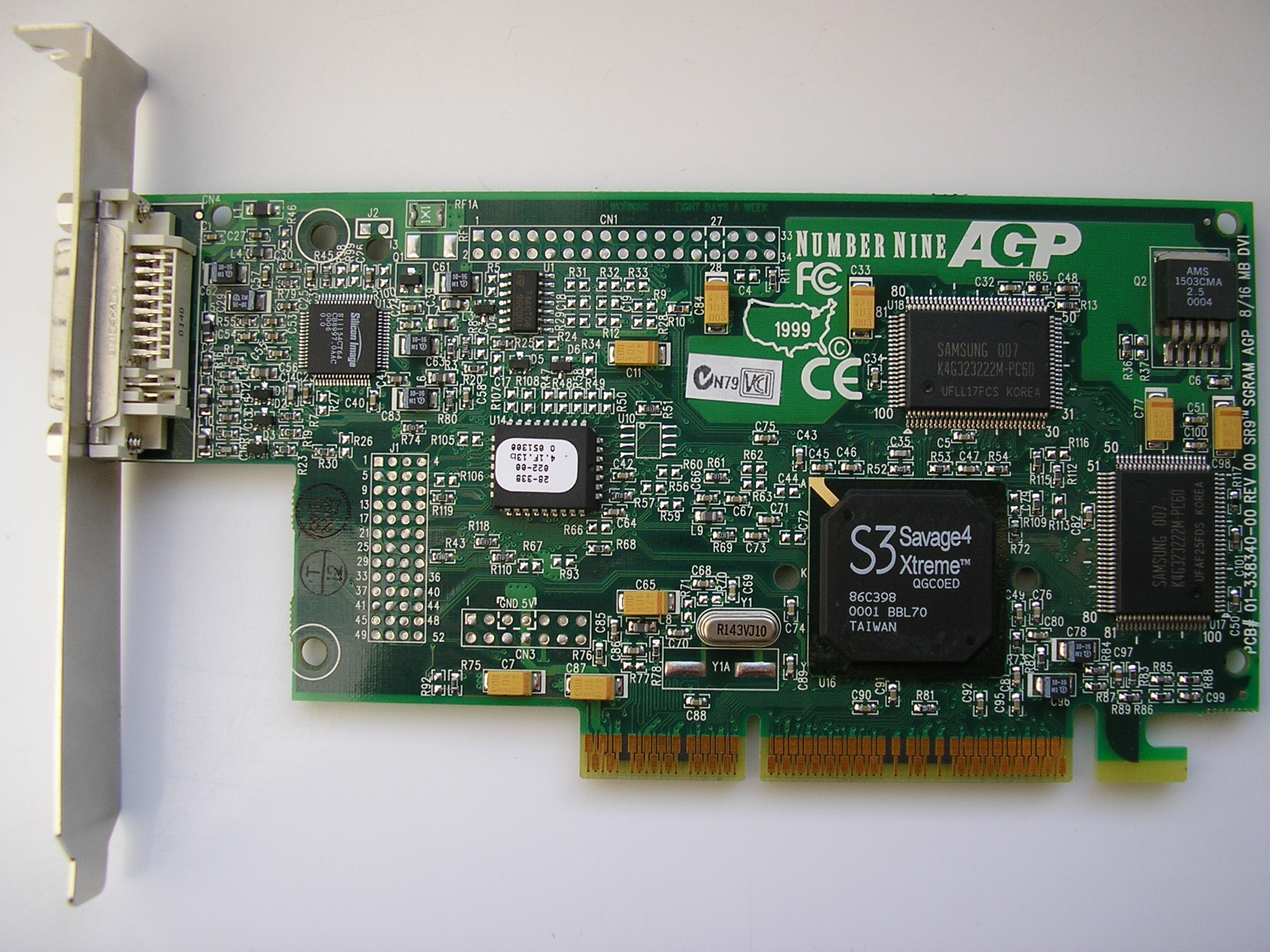 Number Nine SR9 SGRAM AGP 8/16 MB DVI (16MB one and with removed heatsink) 1999 (PCB date: year 2000, week 16) PCB# 01-3383400-00 REV 00 Video chip: S3 Savage4 Xtreme (86C398) On the white sticker on back side: 11S09N1790ZJ1AV899548O FRU33L1618 005 Inscription text in the PCB: "WORKING...EIGHT DAYS A WEEK" Text in the video BIOS (but not visiable at boot): "Number Nine Visual Technology SR9 ...is waiting to take you away"